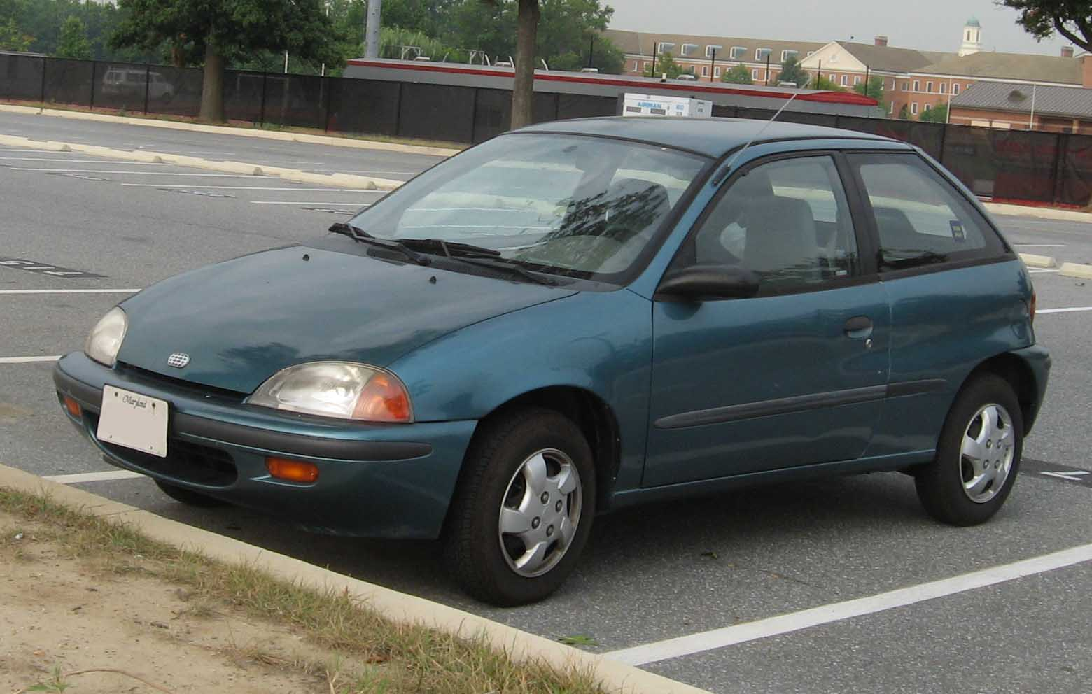 1995-1997 Geo Metro photographed in USA.